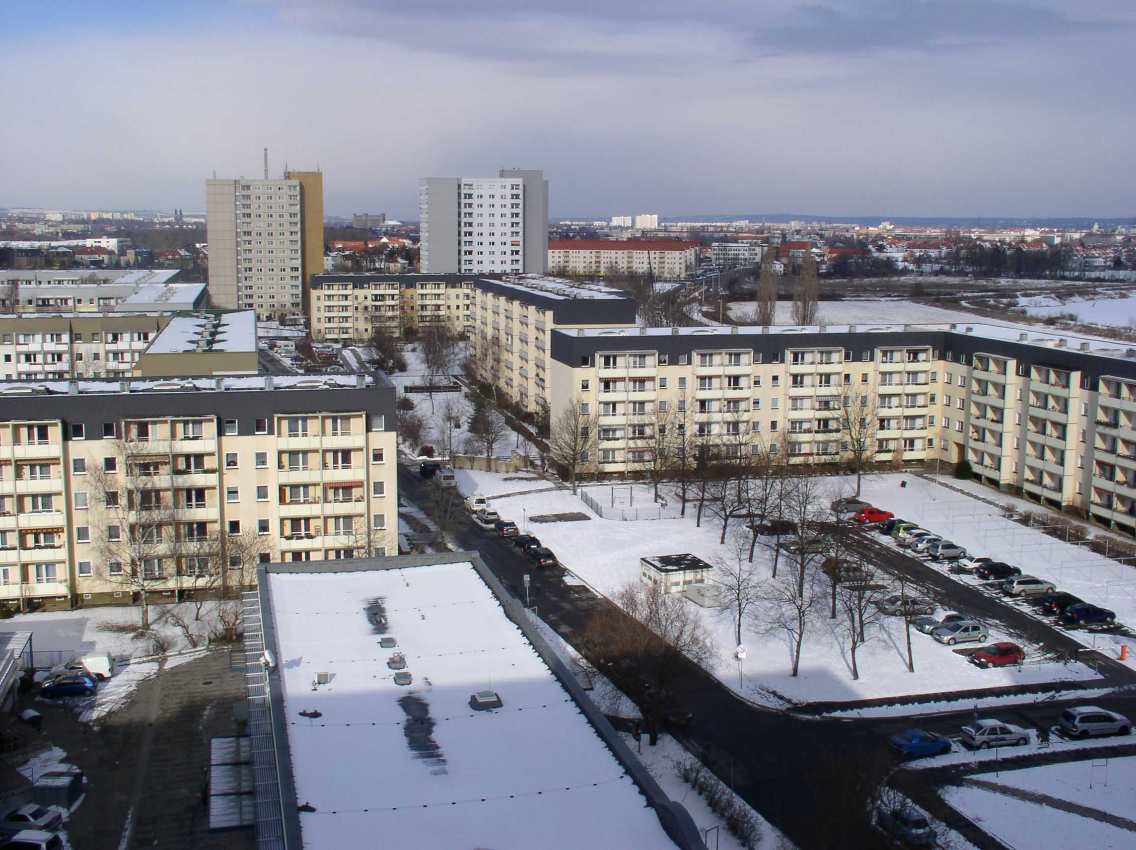 Development area Dresden-Leuben, Germany